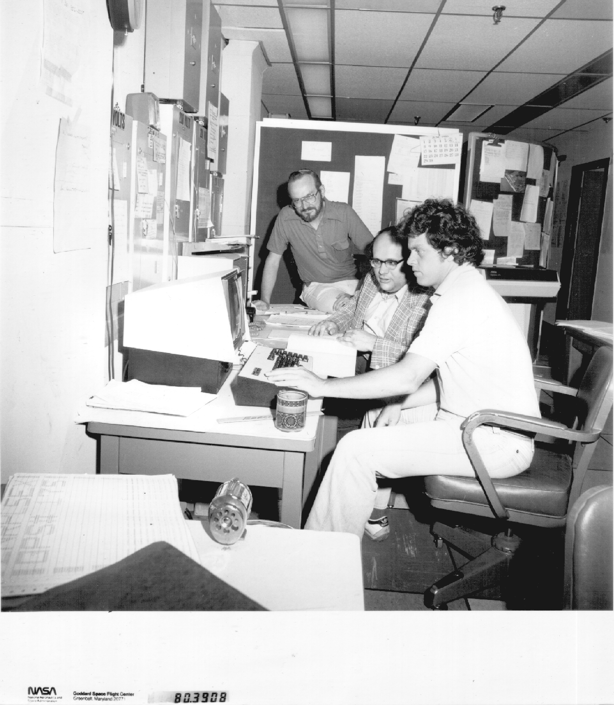 Experiments Operations Facility (EOF) with Loren Acton (XRP), Dave Middlekauff and Jimmy Barcus (both Grumman)